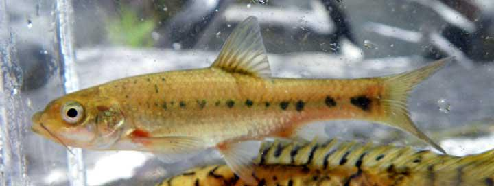 A Breede River Redfin, from Jan du Toit's River, Western Cape, South Africa